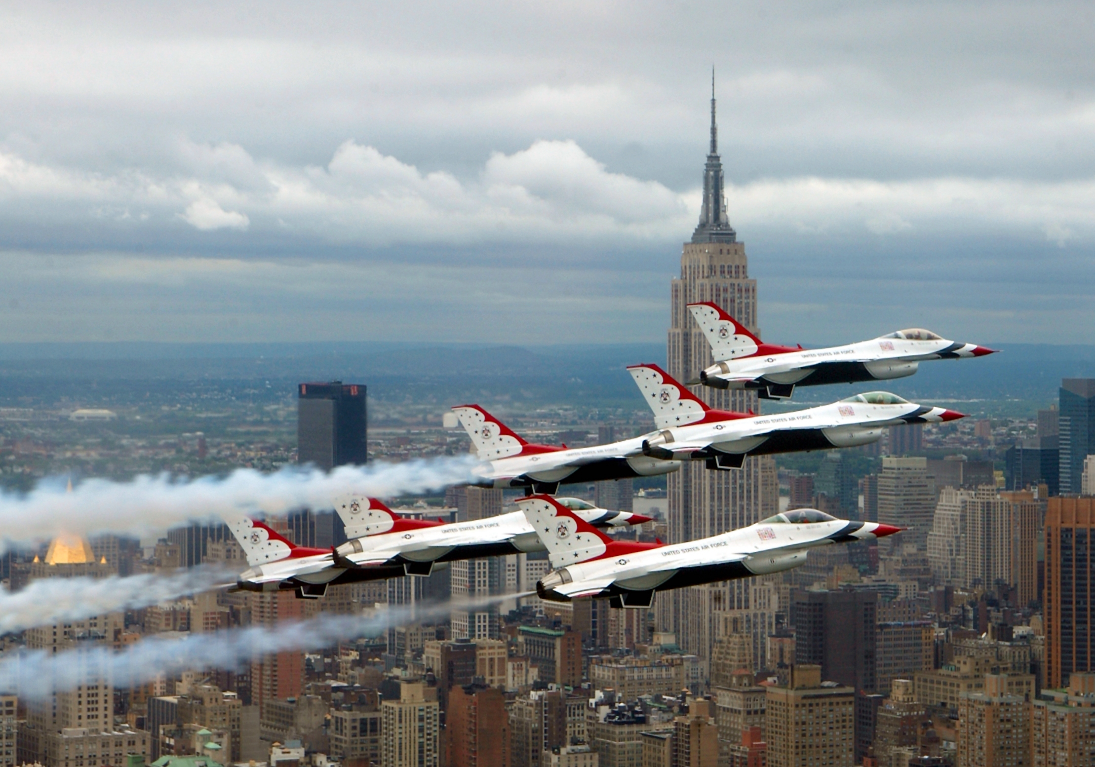 NEW YORK -- Six F-16 Fighting Falcons with the U.S. Air Force Thunderbirds aerial demonstration team fly in delta formation in front of the Empire State Building during an air show May 26. (U.S. Air Force photo by Tech. Sgt. Sean Mateo White) Edited from original--rotated 0.8 degrees clockwise, increased saturation and contrast.